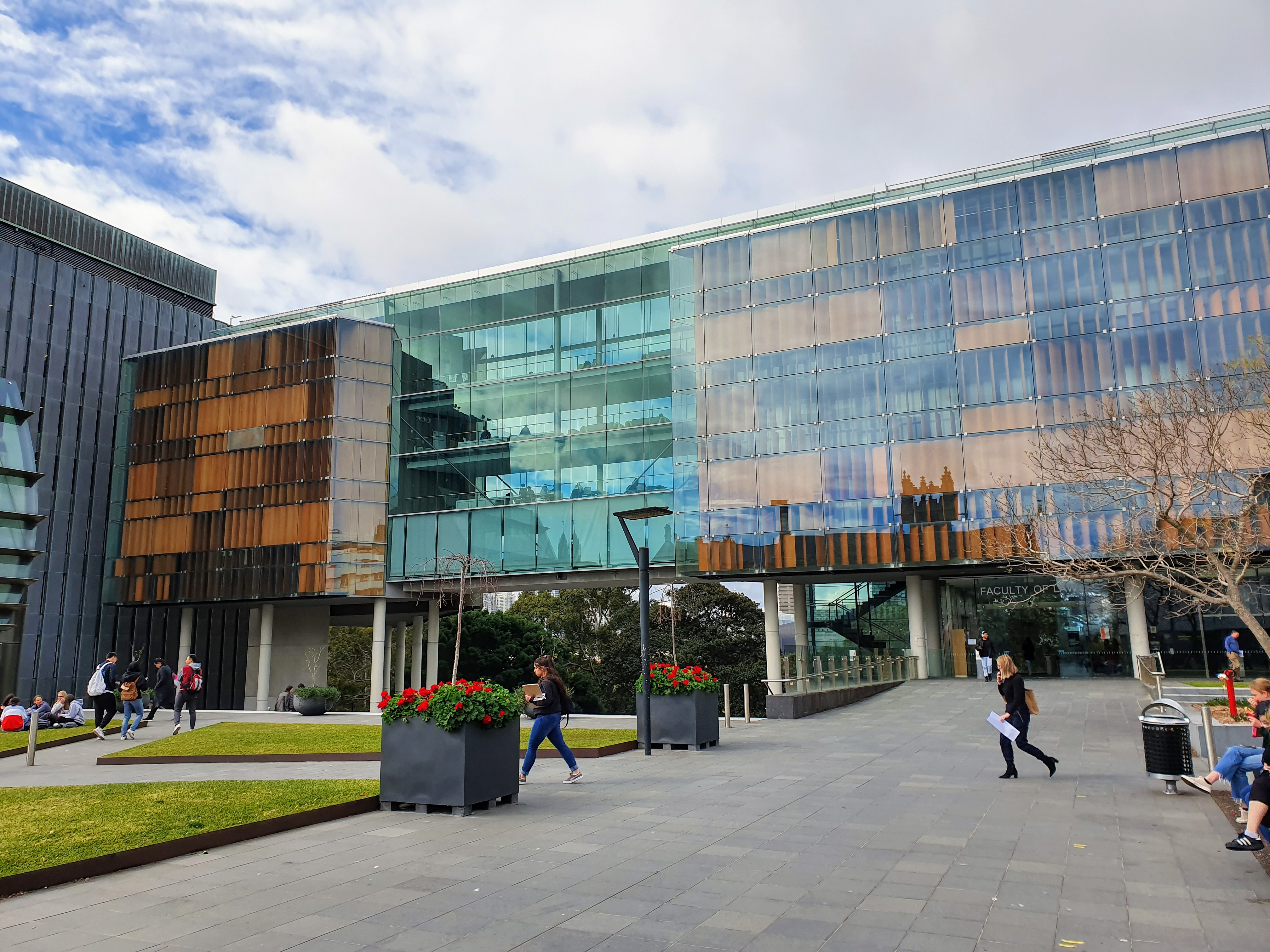 University of Sydney's Faculty of Law and its Library Architecture